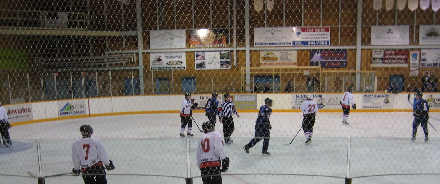 Golden Rockets playing the Creston Valley Thundercats, in Golden, British Columbia